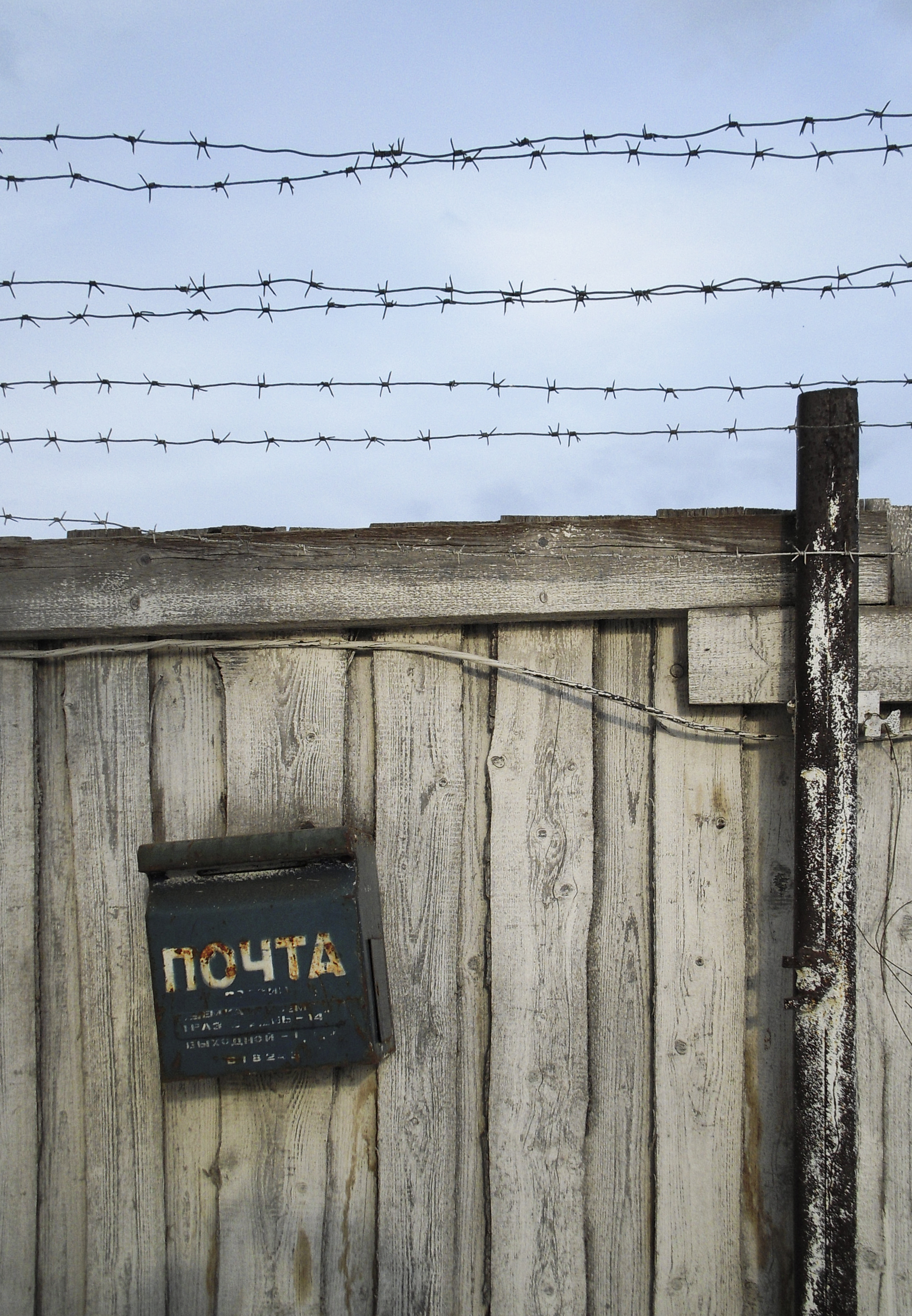 Gulag Perm-36 (Kuchino near Chusovoi, Russia). Postbox on the camp wall.